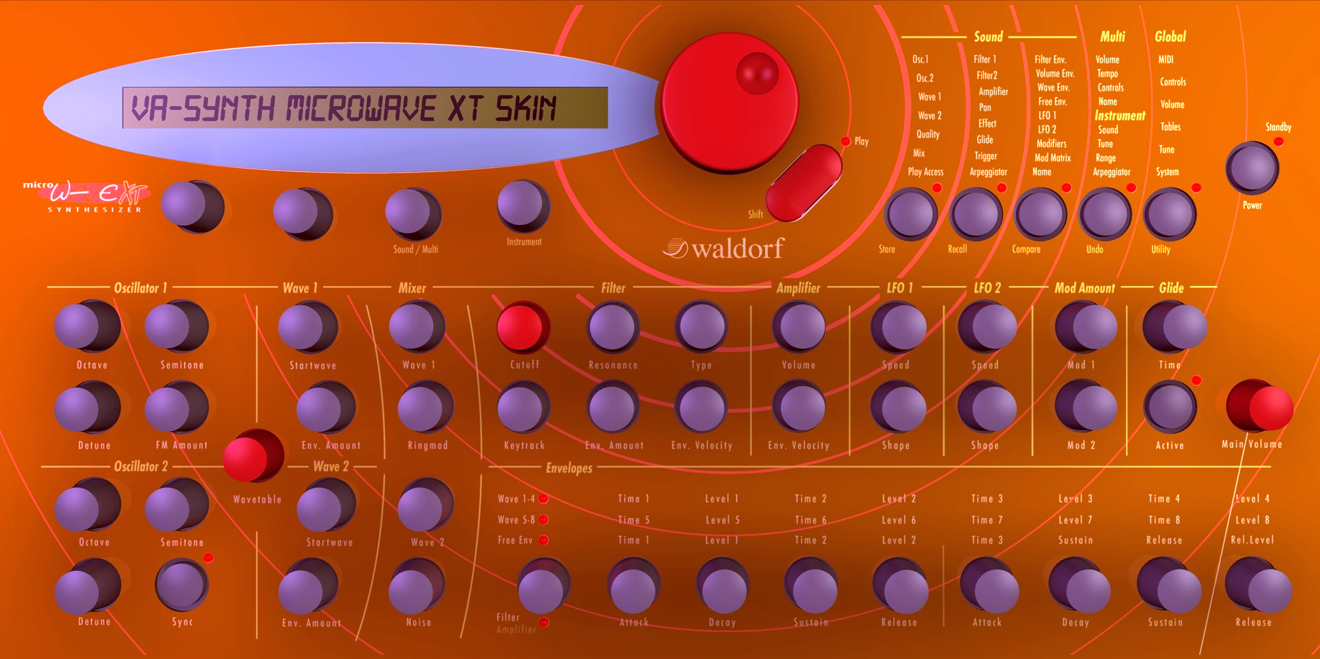 virtual MicroWave Console für DIY FPGA Synthesizer control